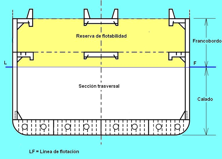 graphic about max load line (spanish)